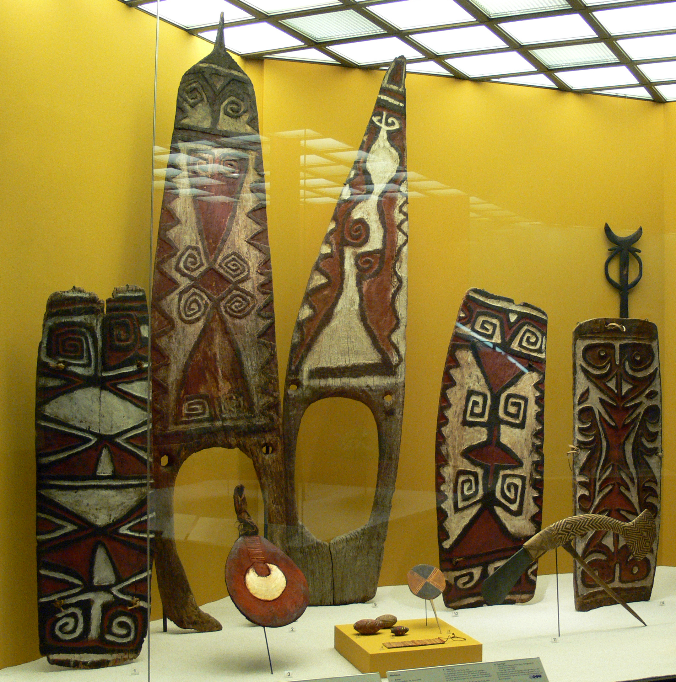 Shields and other artecacts; Highland, Papua New Guinea; South Seas Department, Ethnological Museum, Berlin, Germany. Left to right: 1: Shield, Craig collection 1969 2: Decorative panel from a house, Craig collection 1968 9: Decorative panel from a house, Craig collection 1969 10: Shield, Craig collection 1969 12: Shield, Sepik expedition 1912/1913